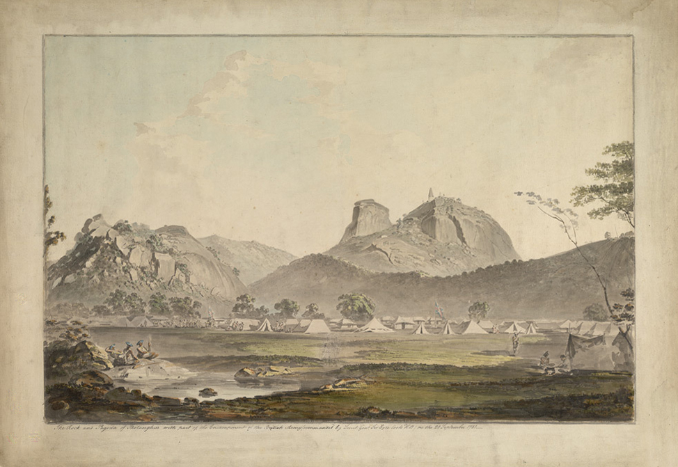 "The British Army encamped below the rock of Sholinghur. 28 September 1781," a watercolor by Samuel Davis* (BL)-- Sholinghur was the scene of the last decisive British victory over Haidar Ali